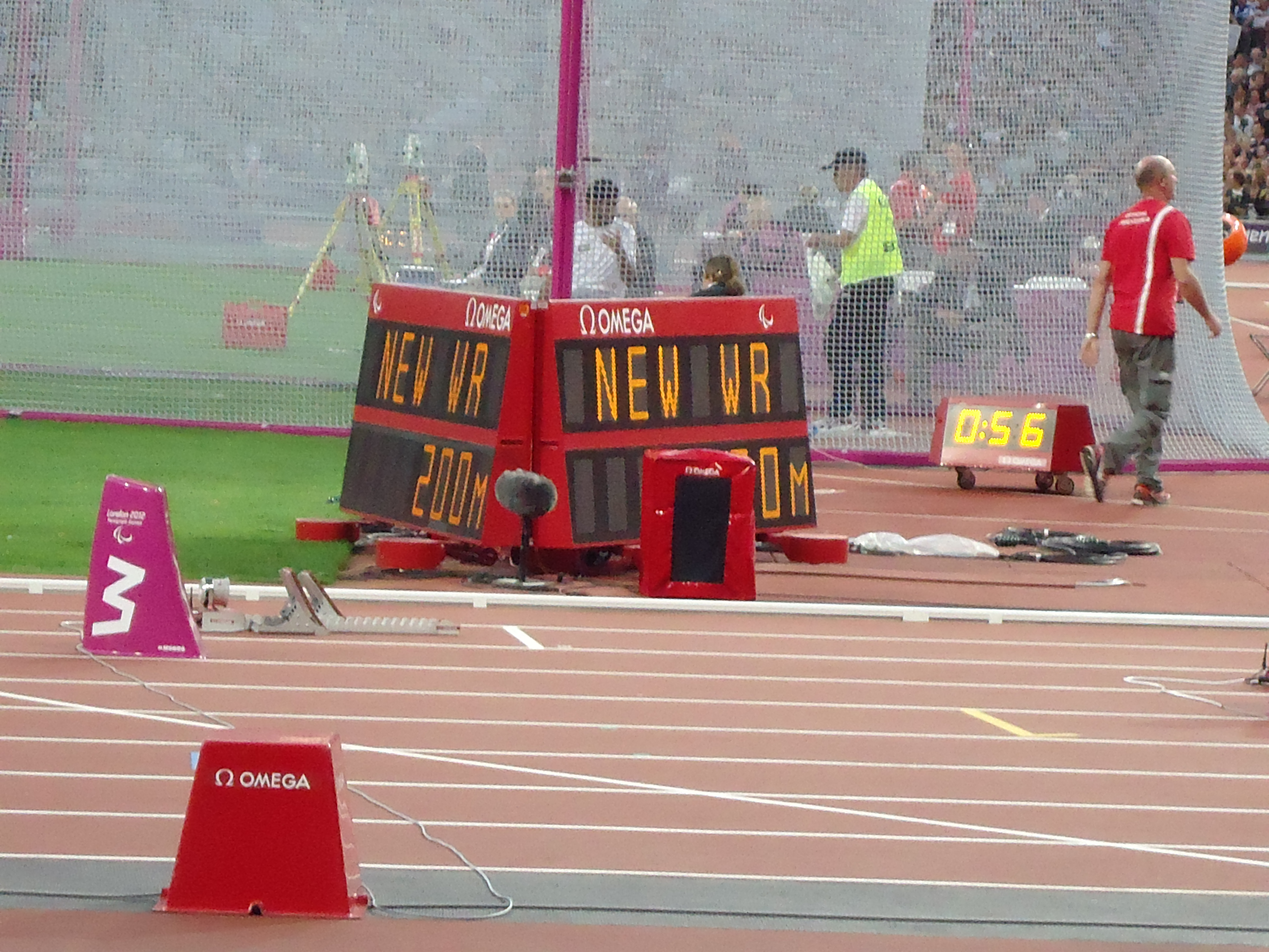 The timing system showing that Jason Smyth has set a world record on September 8 at the London 2012 Paralympic Games.